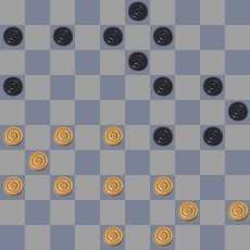 International draughts, Coup Weiss.